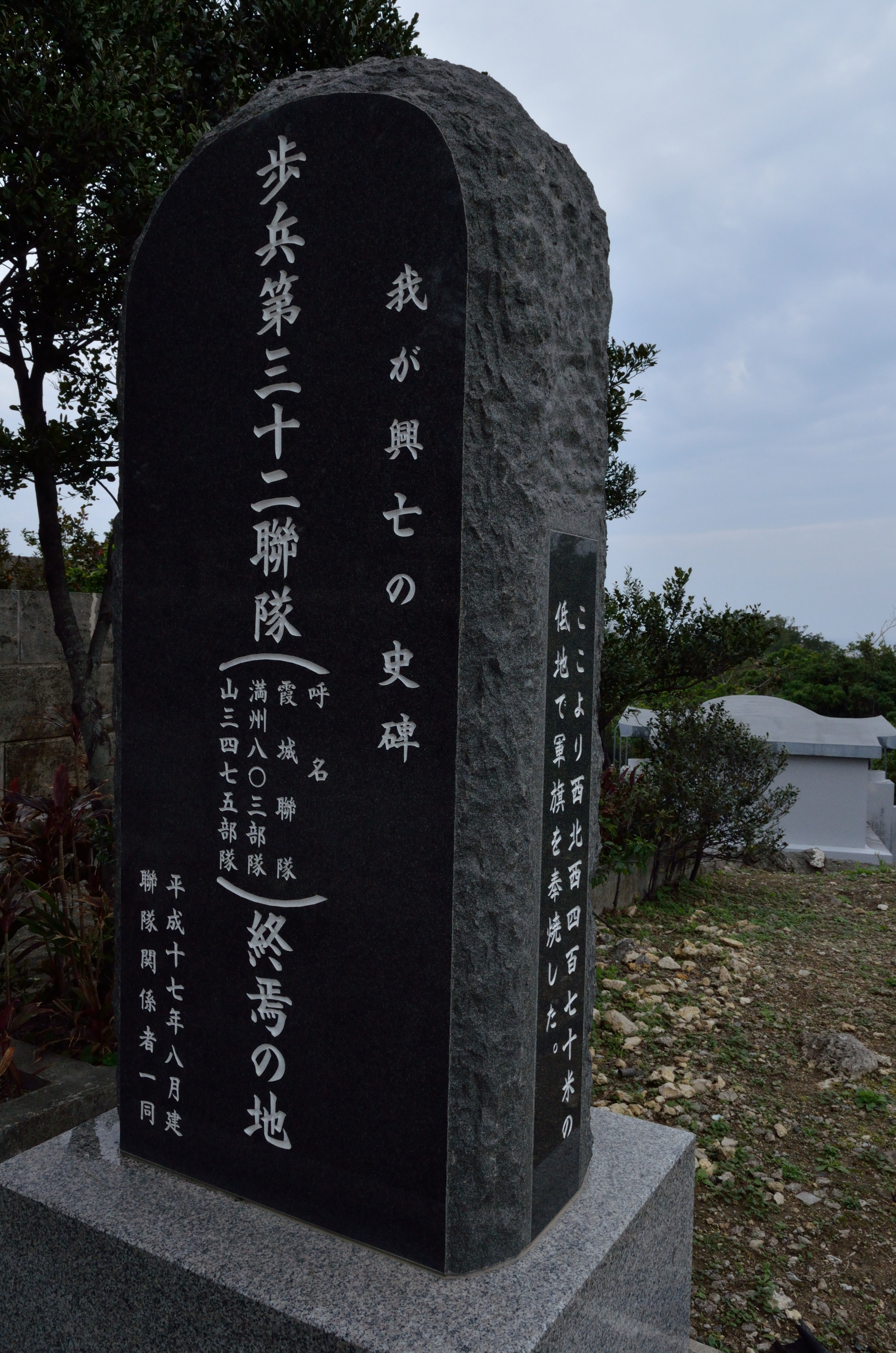 Monument of the 32nd Infantry Regiment of the Imperial Japanese Army in Itoman City, Okinawa, Japan.